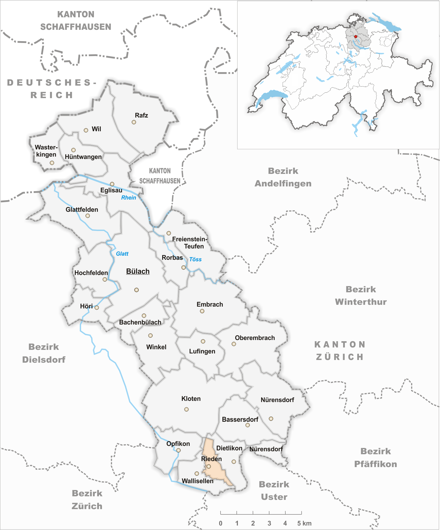 Municipality Rieden